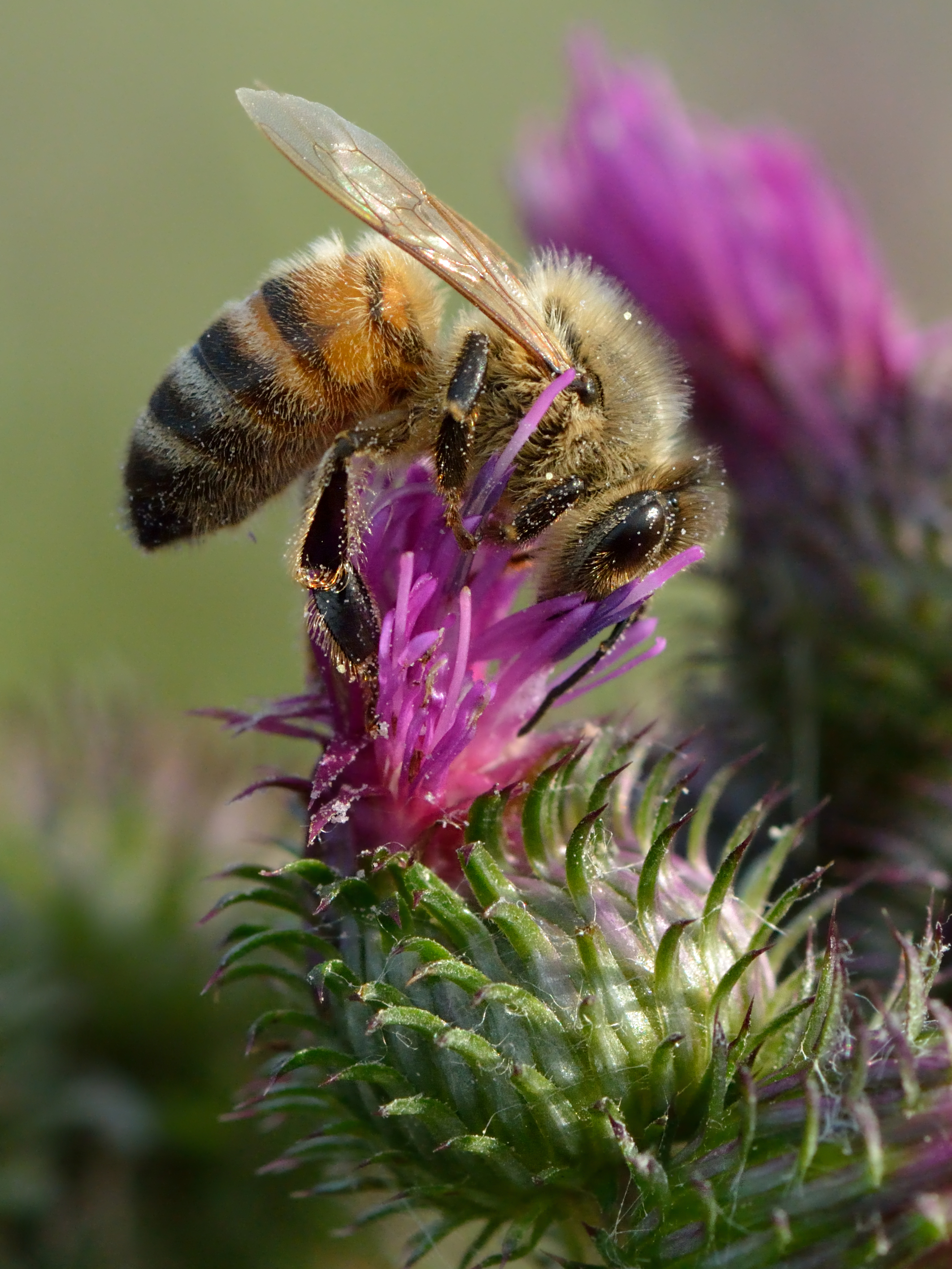 Honeybee (Apis mellifera) on the curly plumeless thistle (Carduus crispus). Keila, Northwestern Estonia.